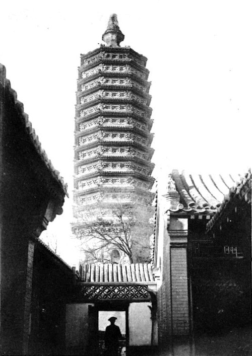 Image from La Chine à terre et en ballon.